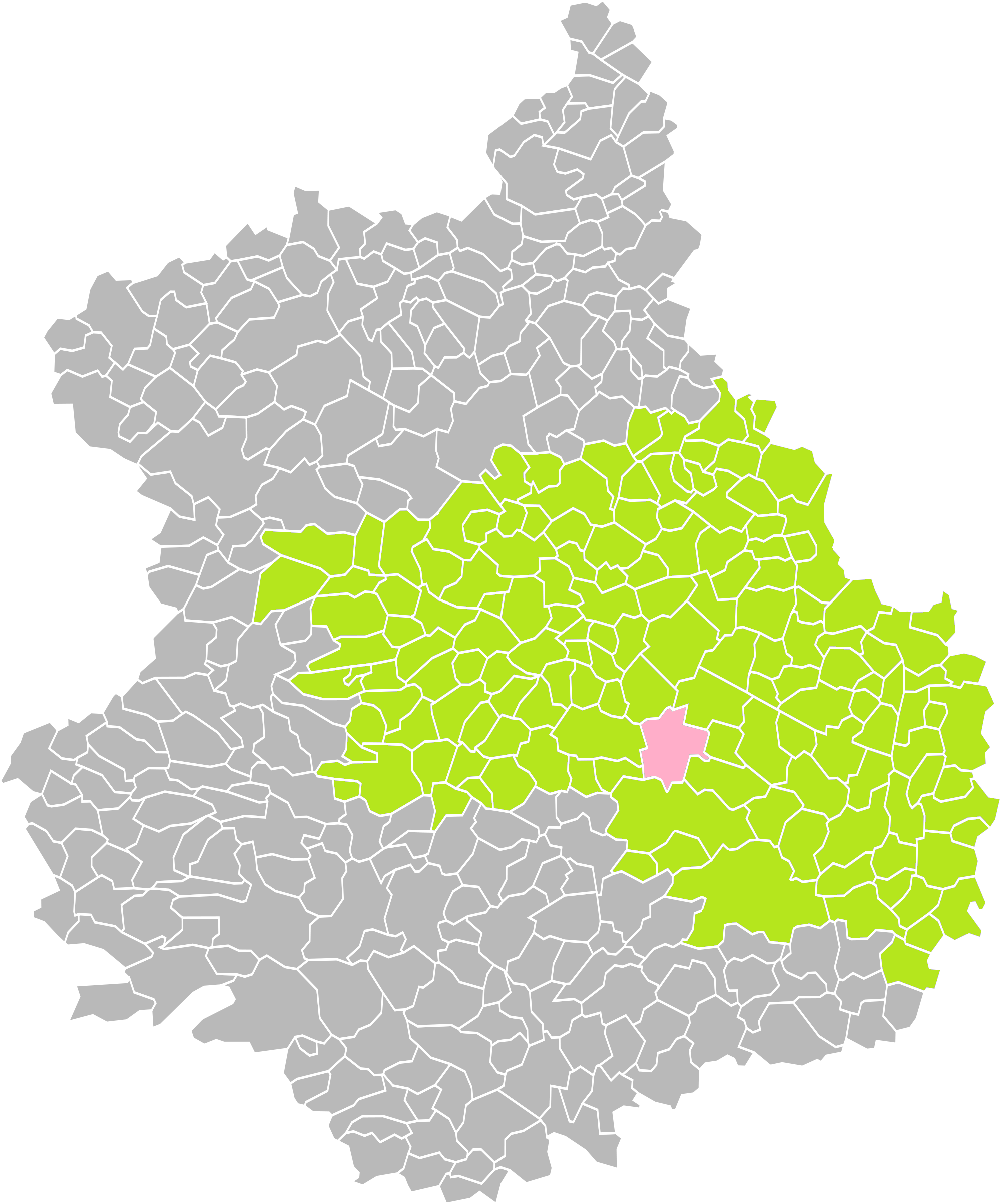 Location of the commune of Theuville in the arrondissement of Chartres (Eure-et-Loir)